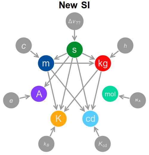 Metrological dependencies between the different base units of the proposed redefinition of the SI system of units as it currently stands, including the fundamental constants used to define them: - the frequency of some to-be-determined optical transition for the second, - the speed of light for the metre, - the Planck constant for the kilogram, - the Avogadro constant for the mole, - the sensitivity of the human eye for the candela, - the Boltzmann constant for the kelvin, and - the elementary electric charge for the ampere. Generated from a Mathematica notebook at